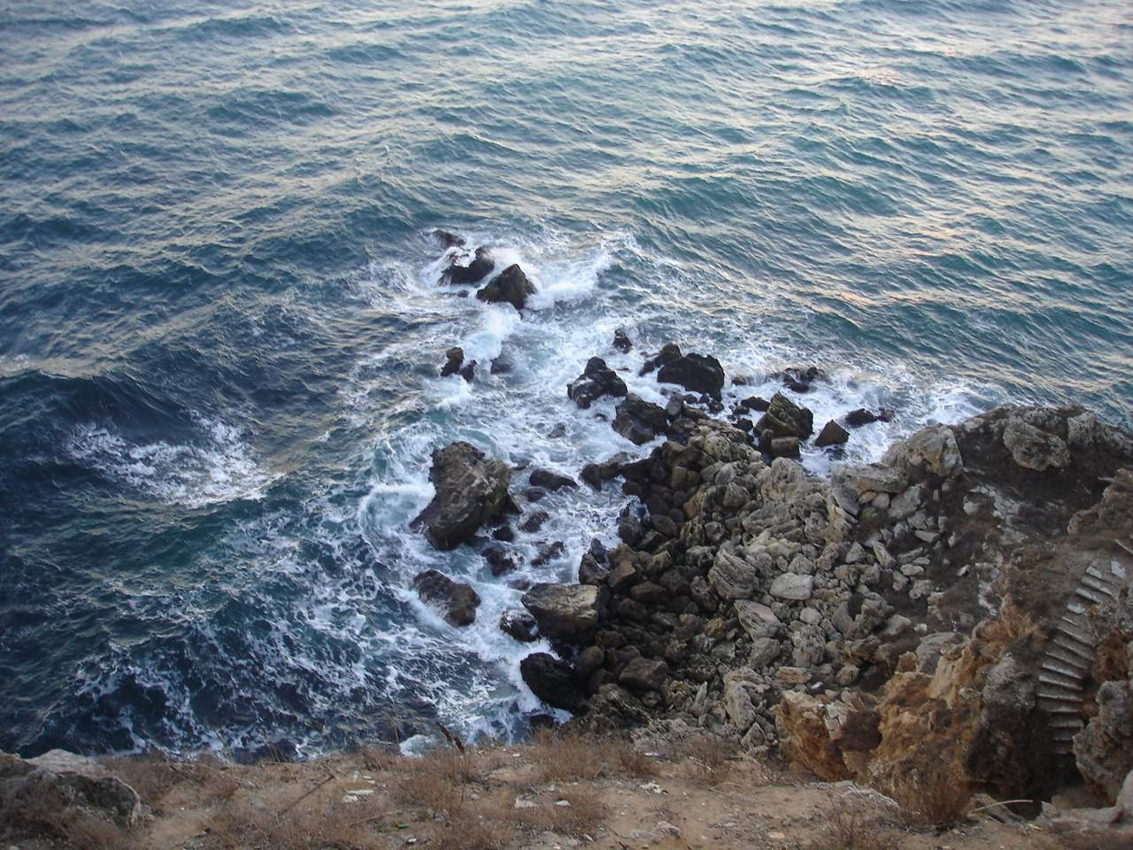 Declivity of Kaliakra on the Black sea. Bulgaria